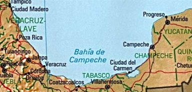 Bay of Campeche (On this map, as in some other, often confused with the smaller Bahía de Campeche). Map of the Bay of Campeche, scene of most of the exploits of the Austin.